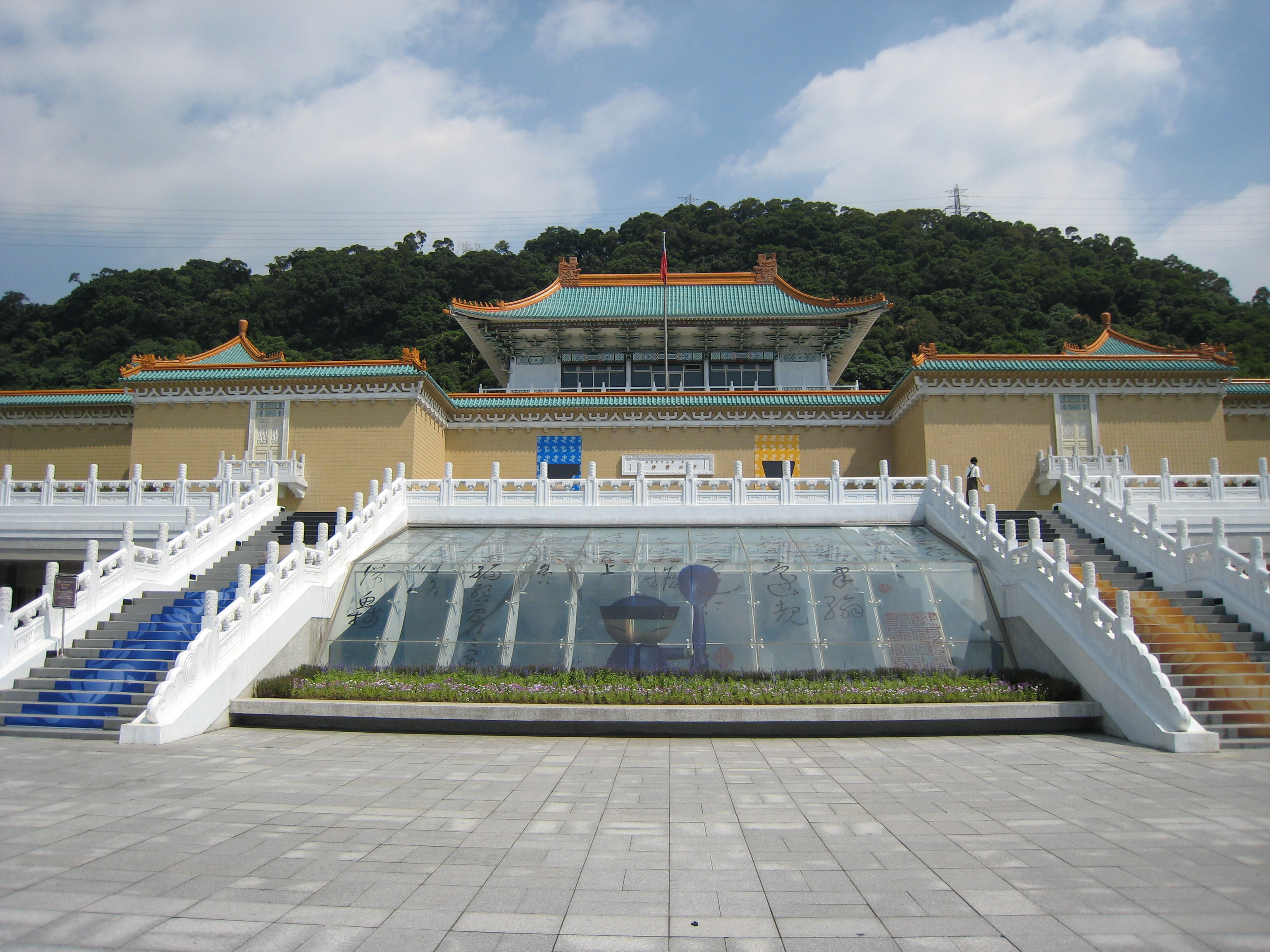 National Palace Museum in Taipei, Taiwan (Republic of China).